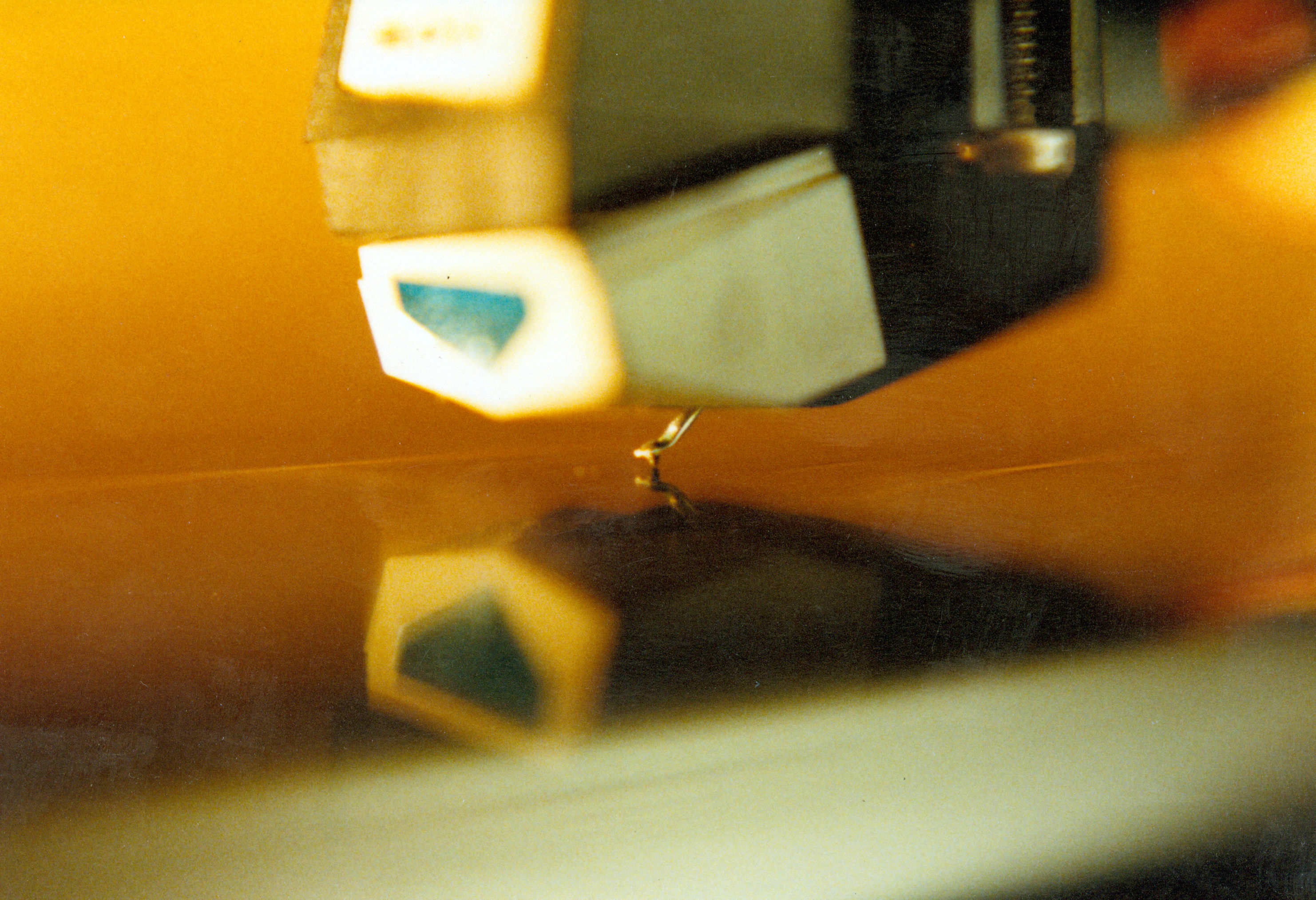 magnetic cartridge